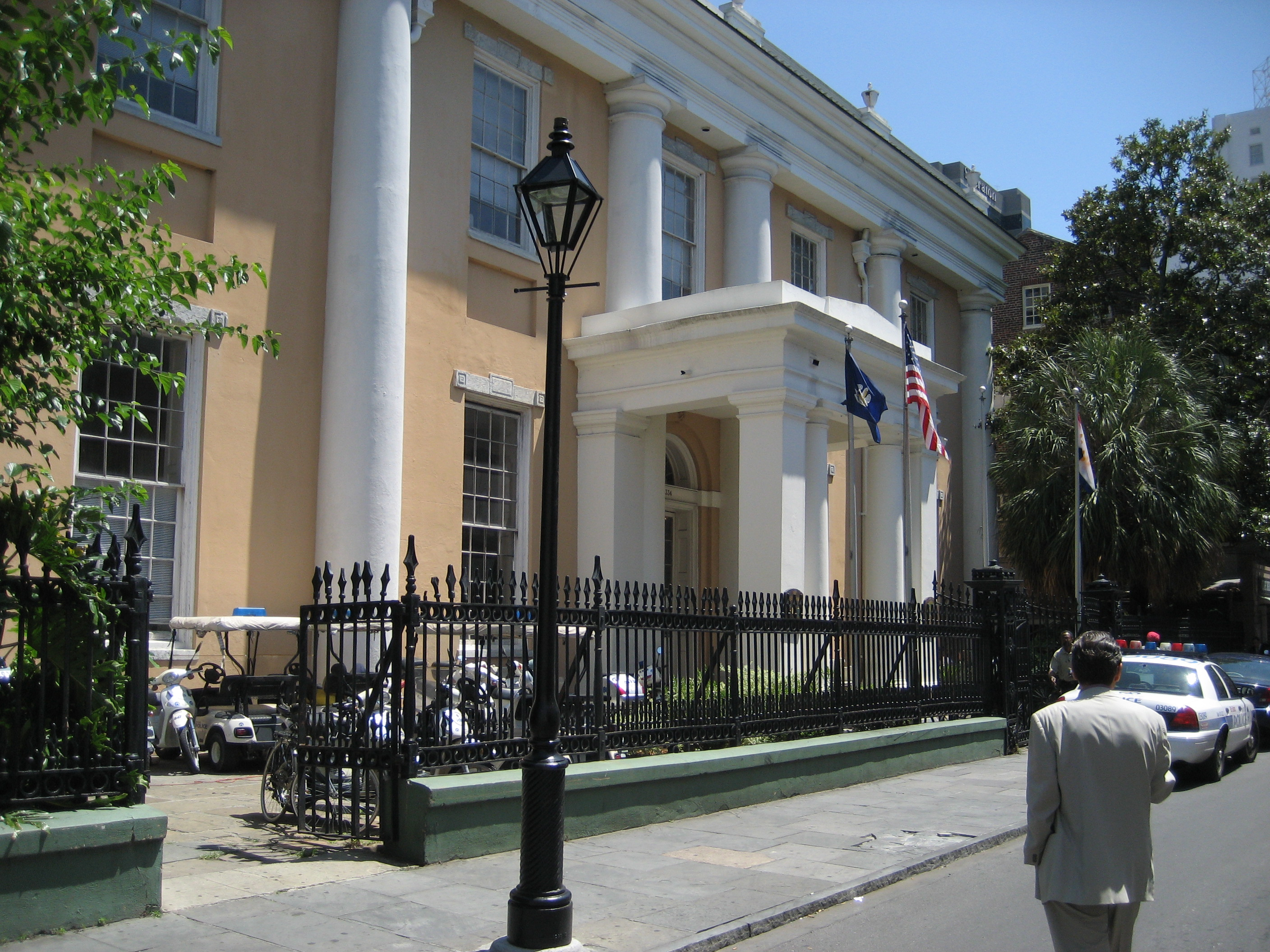 French Quarter, New Orleans: Police substation in old Bank of Louisiana building.